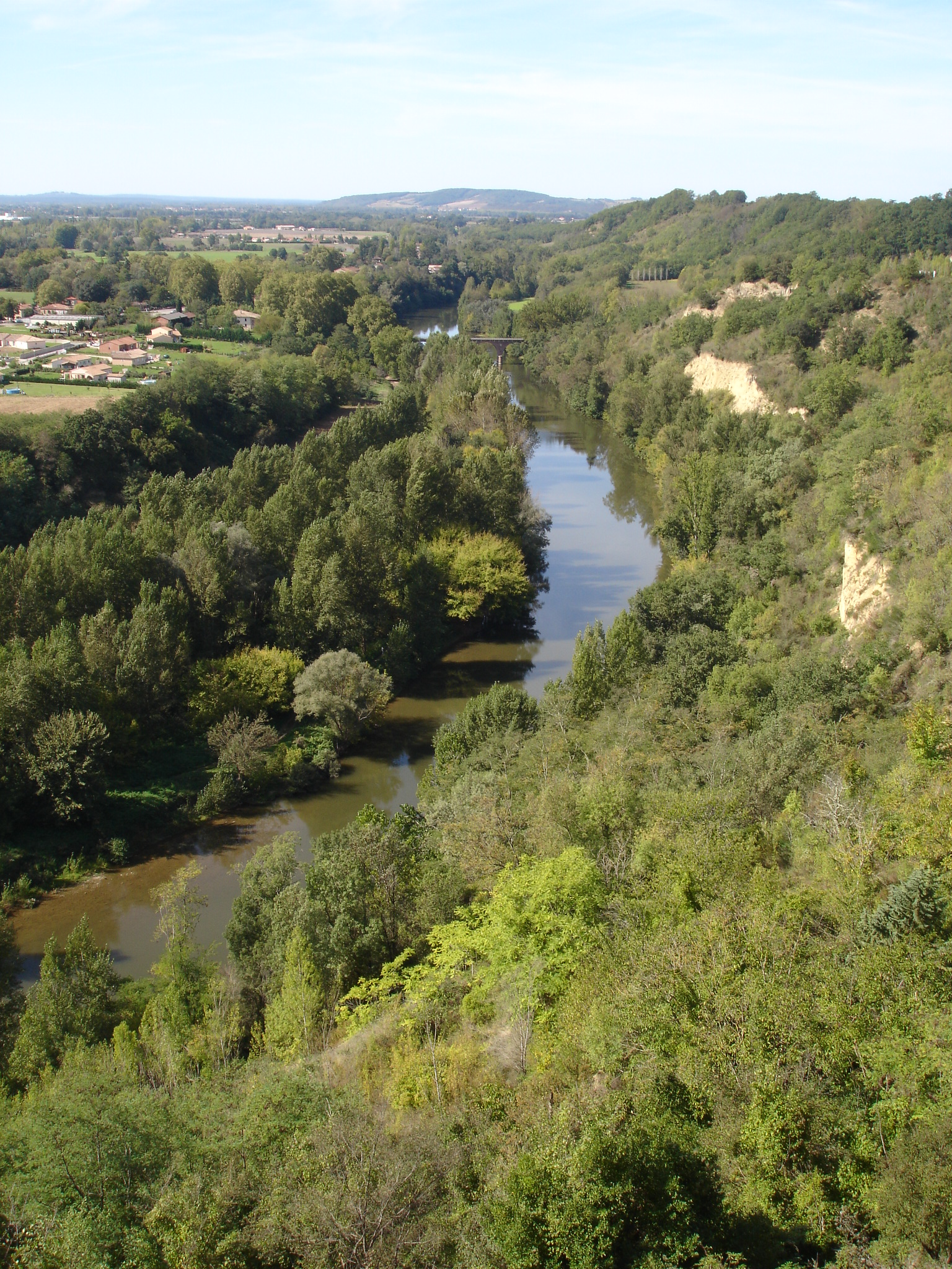 France, Tarn (81), Valley of Agout